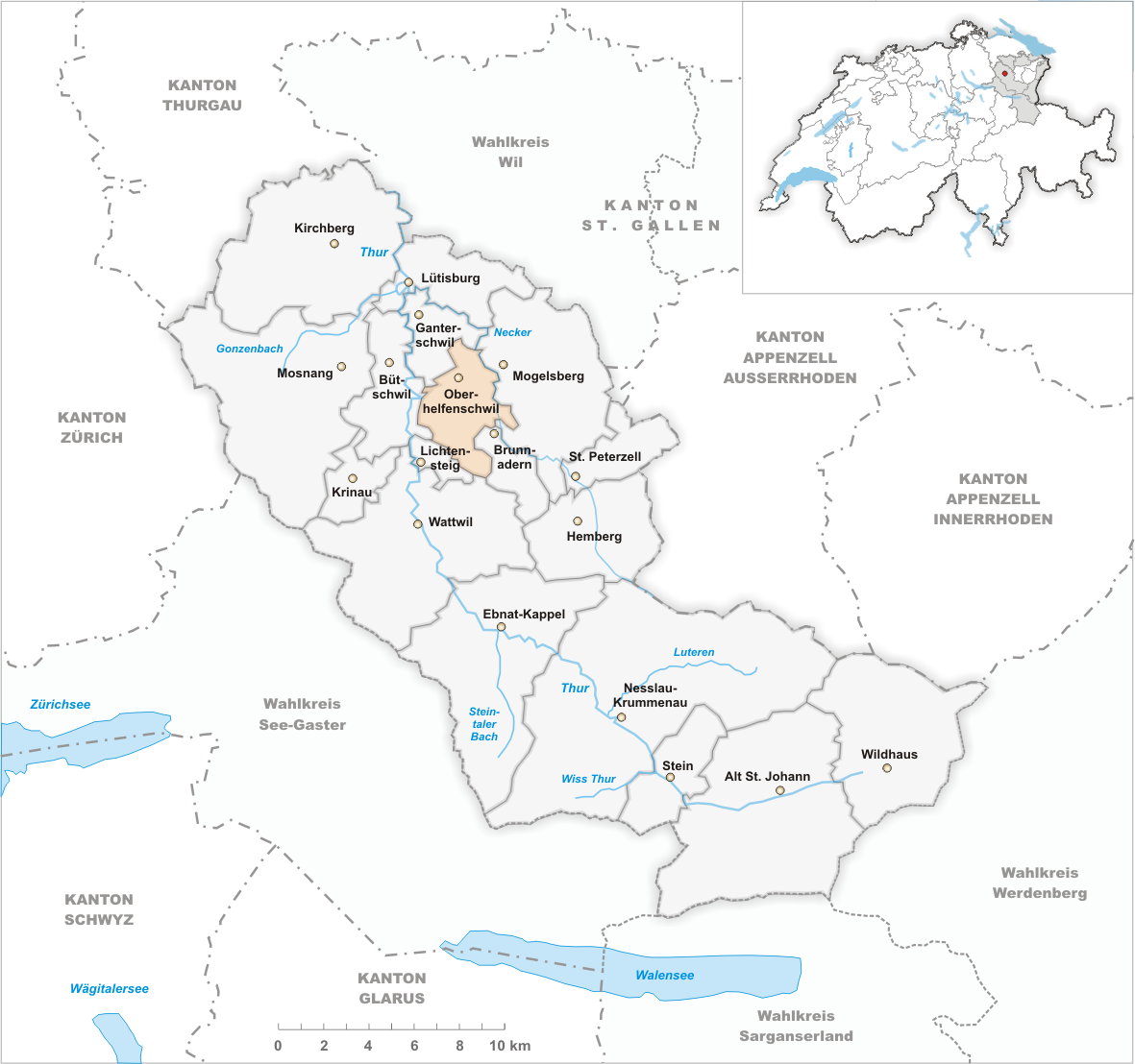 Municipality Oberhelfenschwil